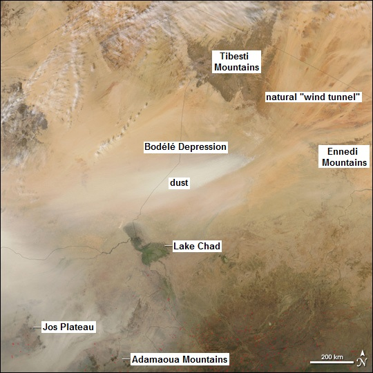 Bodélé Depression in Chad, showing how mountains cause Low Level Jet "windtunnel" to be formed